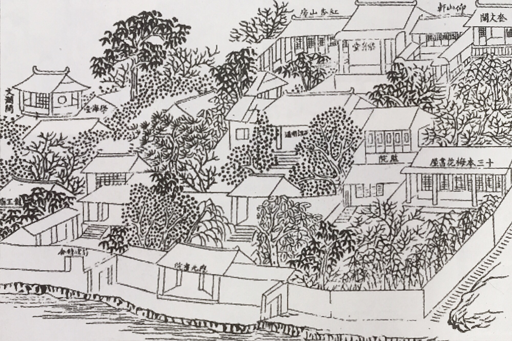 Image of Yingyuan Academy